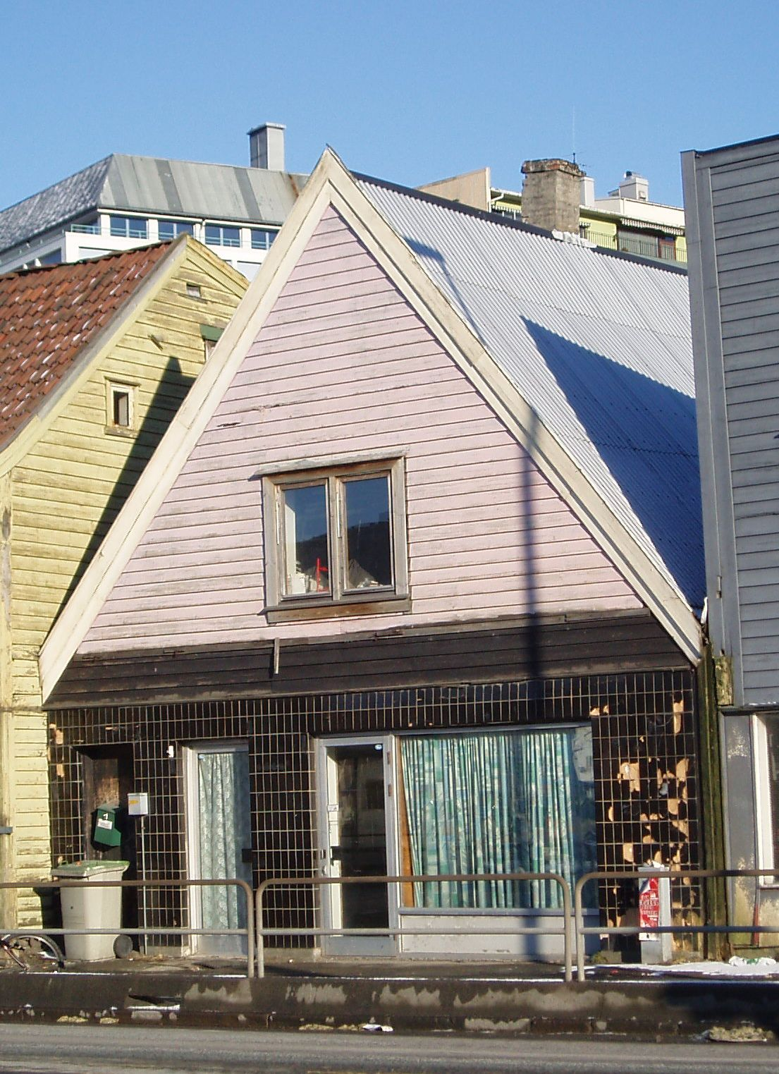 The mosque of Det Islamske Forbundet i Bergen in Bergen, Norway, photographed 6 March 2006 by user:Barend. The congregation has later changed its name to "Bergen Moske". The congregation is, as of early 2008, planning to move into a new building as soon as possible, as this building is too small and dilapidated.